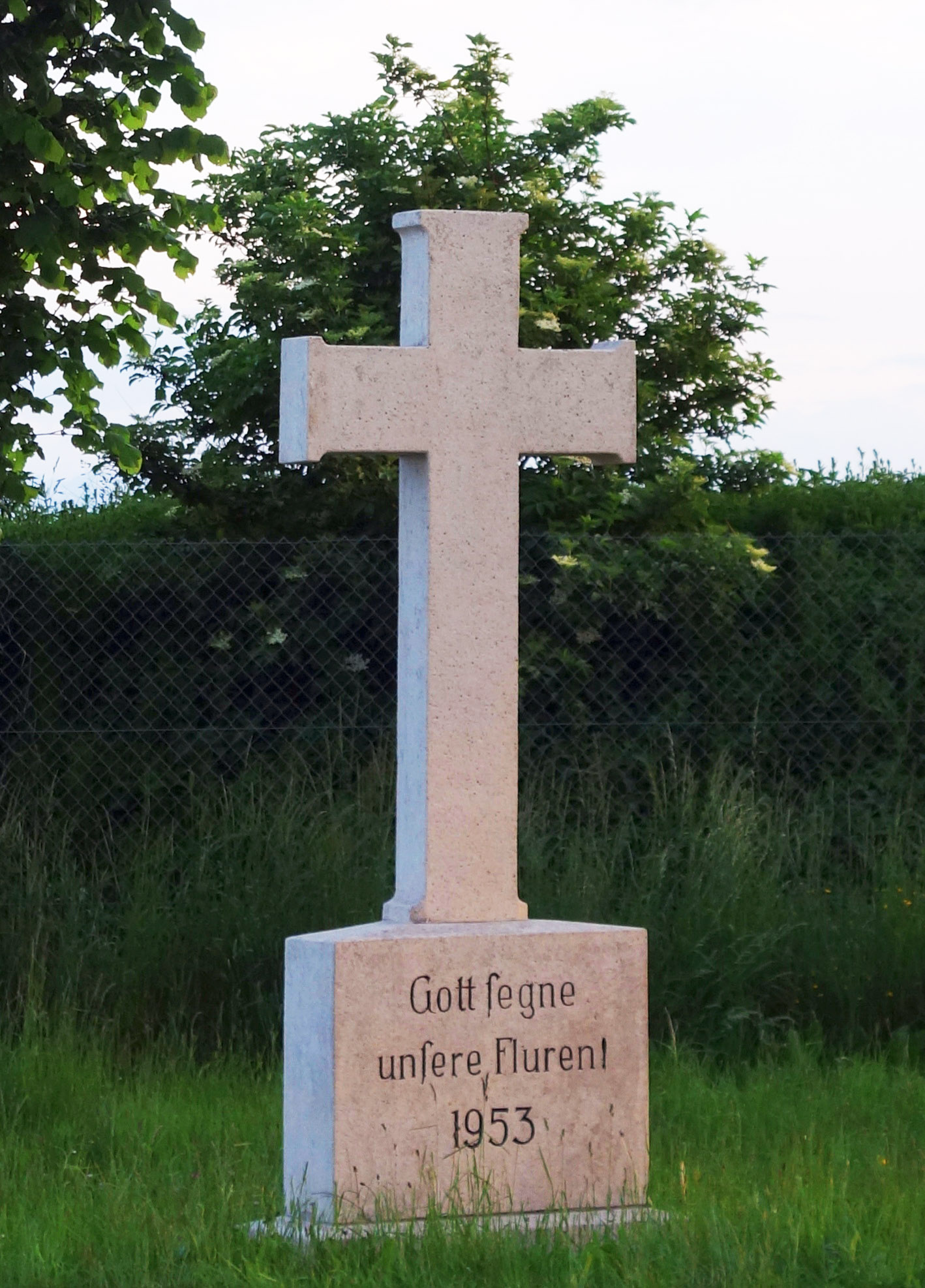 A wayside cross near Hohenfurch, Bavaria, Germany, erected in 1953. The inscription “Gott segne unsere Fluren!” (“God bless our fields/meadows”) uses ſ, the long s, twice.